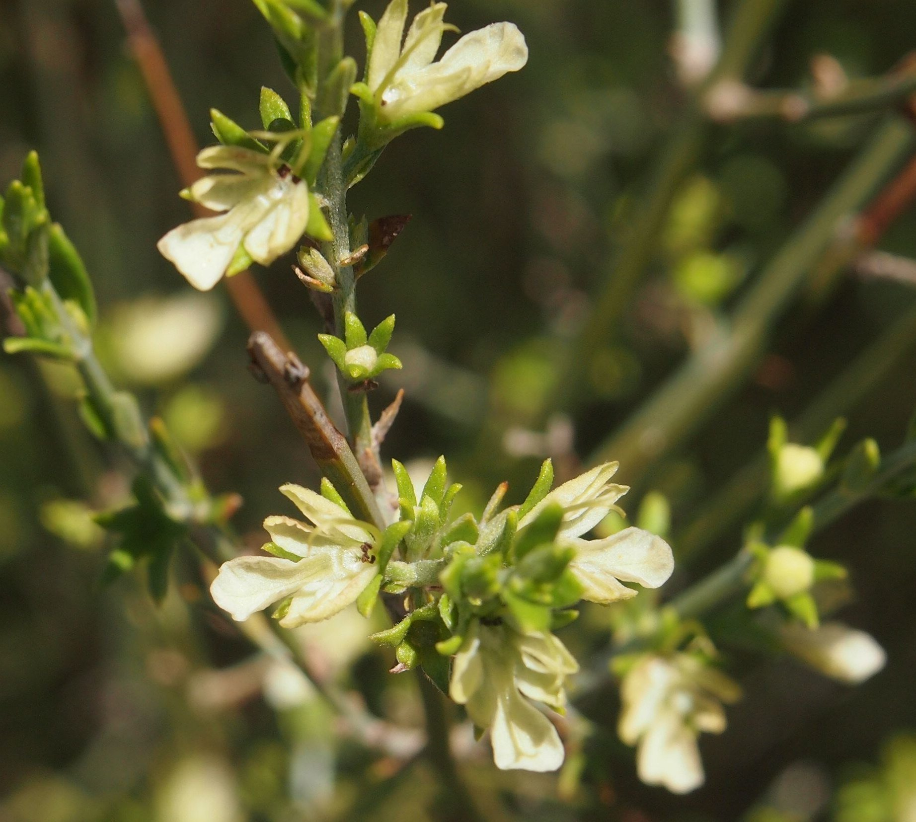 Spartothamnella teucrifolia flowers